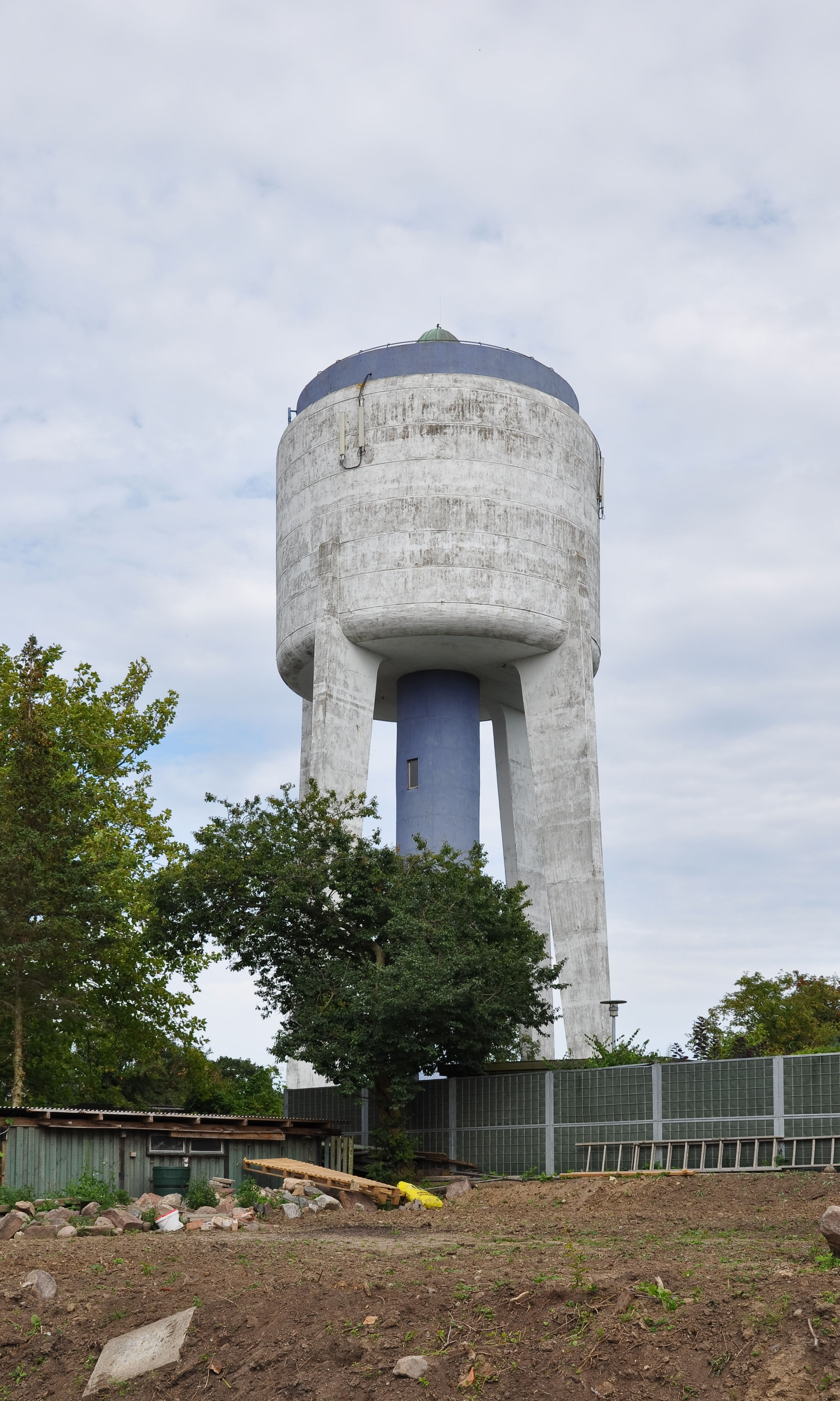 The water tower "Kindtanden" ("The Molar") in Korsør, Denmark.